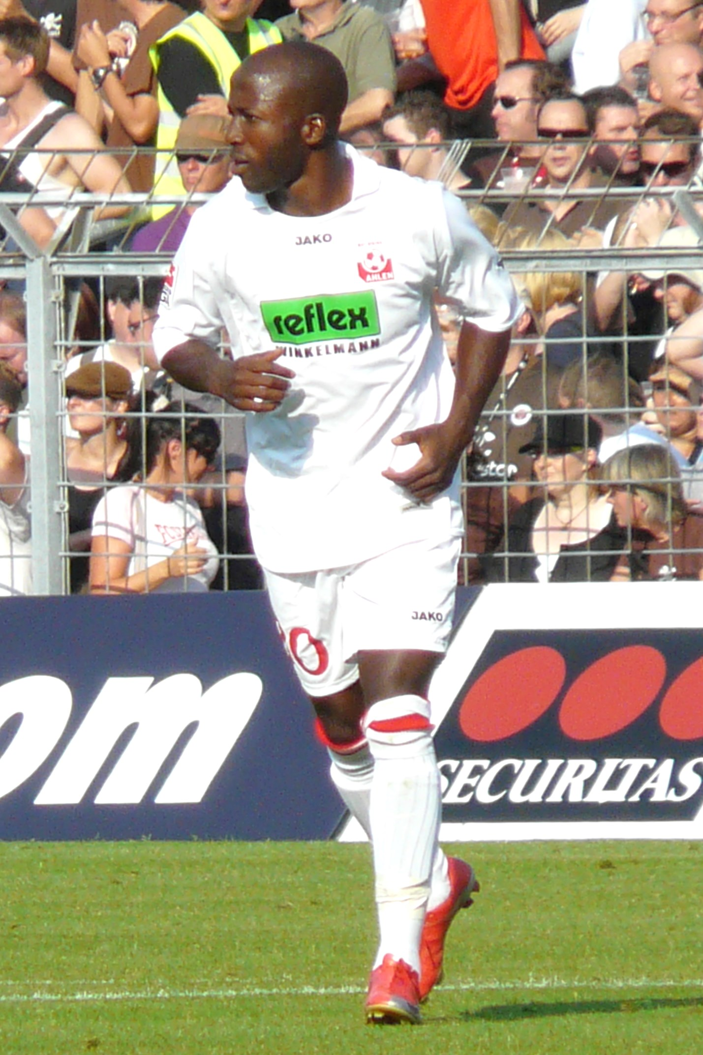 Dominik Kumbela as Player from Rot-Weiß Ahlen